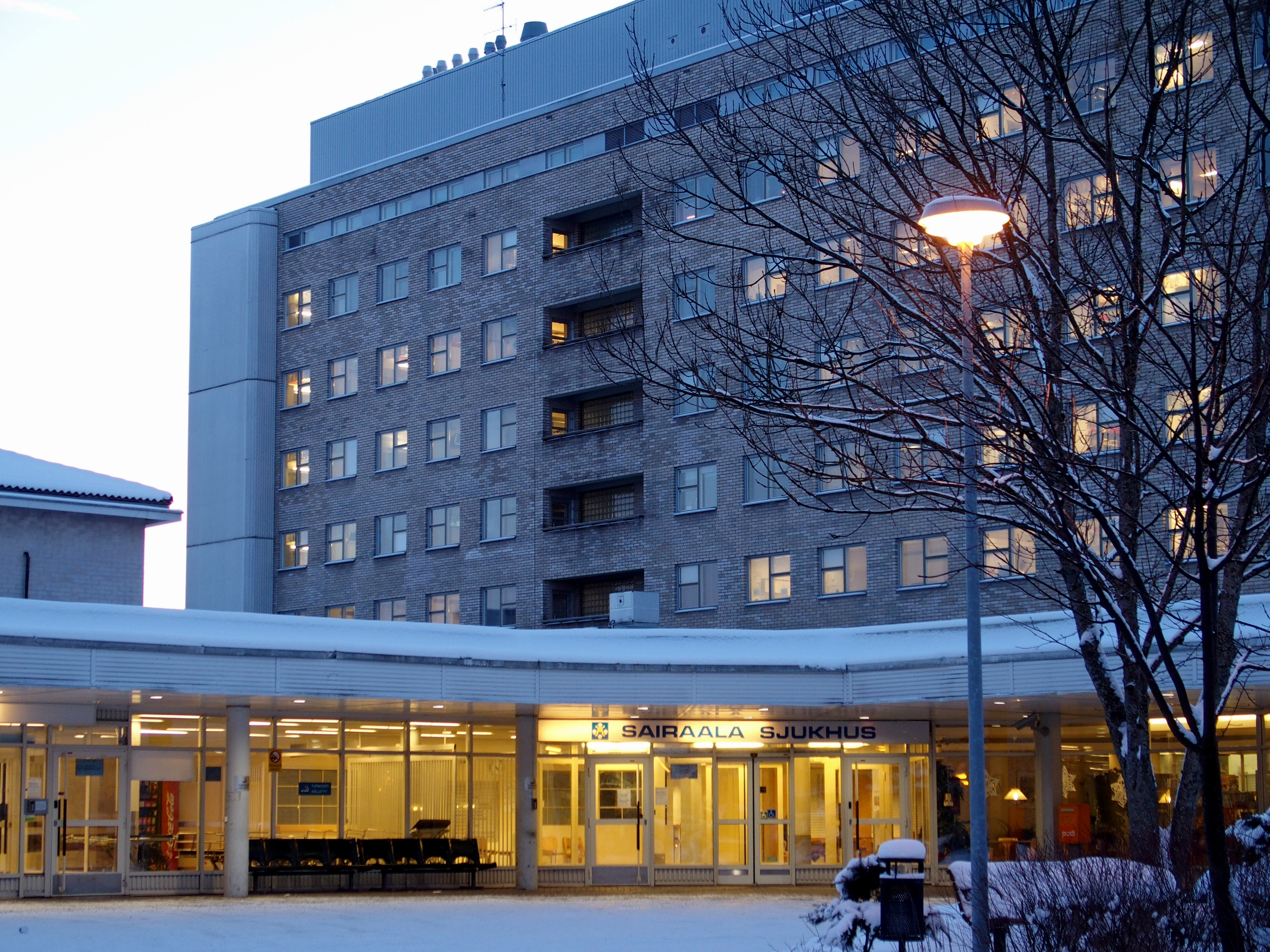 Turku municipal hospital, building 1, main entrance.